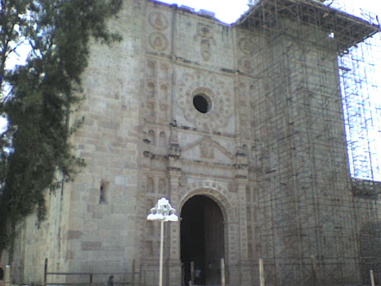 Dominican convent in Saint John Baptist Coixtlahuaca, Oaxaca